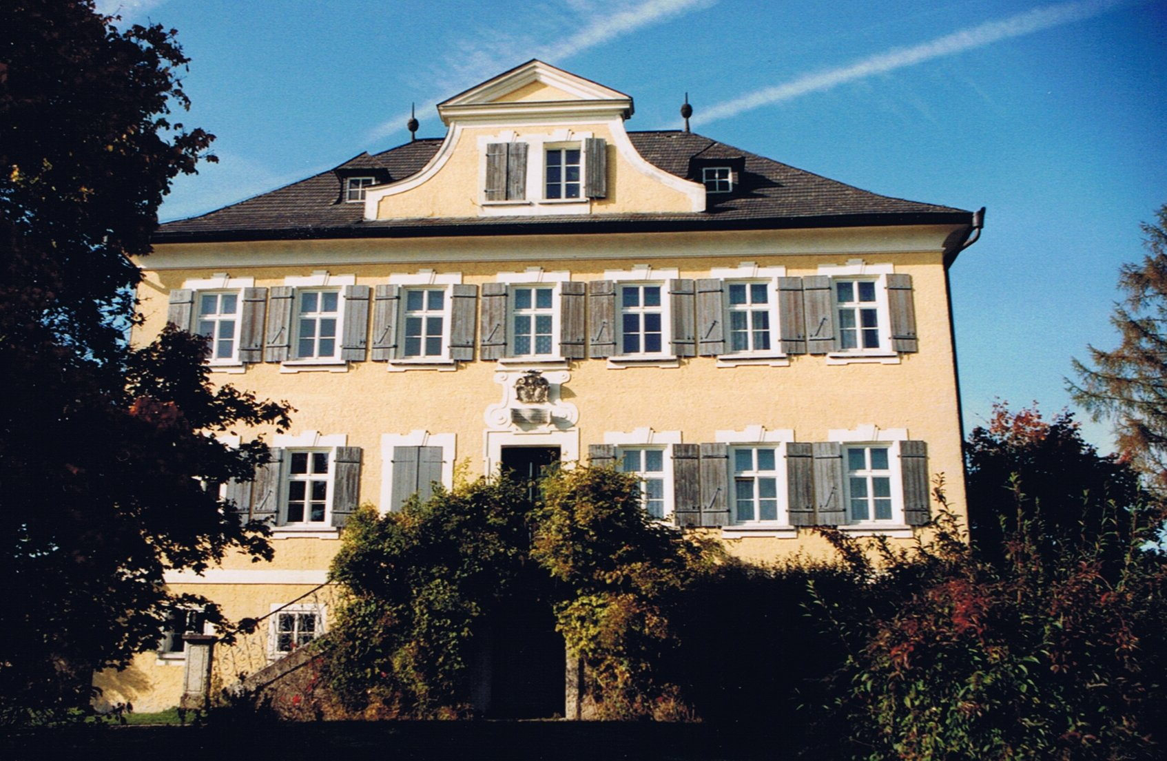 The palace "Ursprung" located in Salzburg/Austria